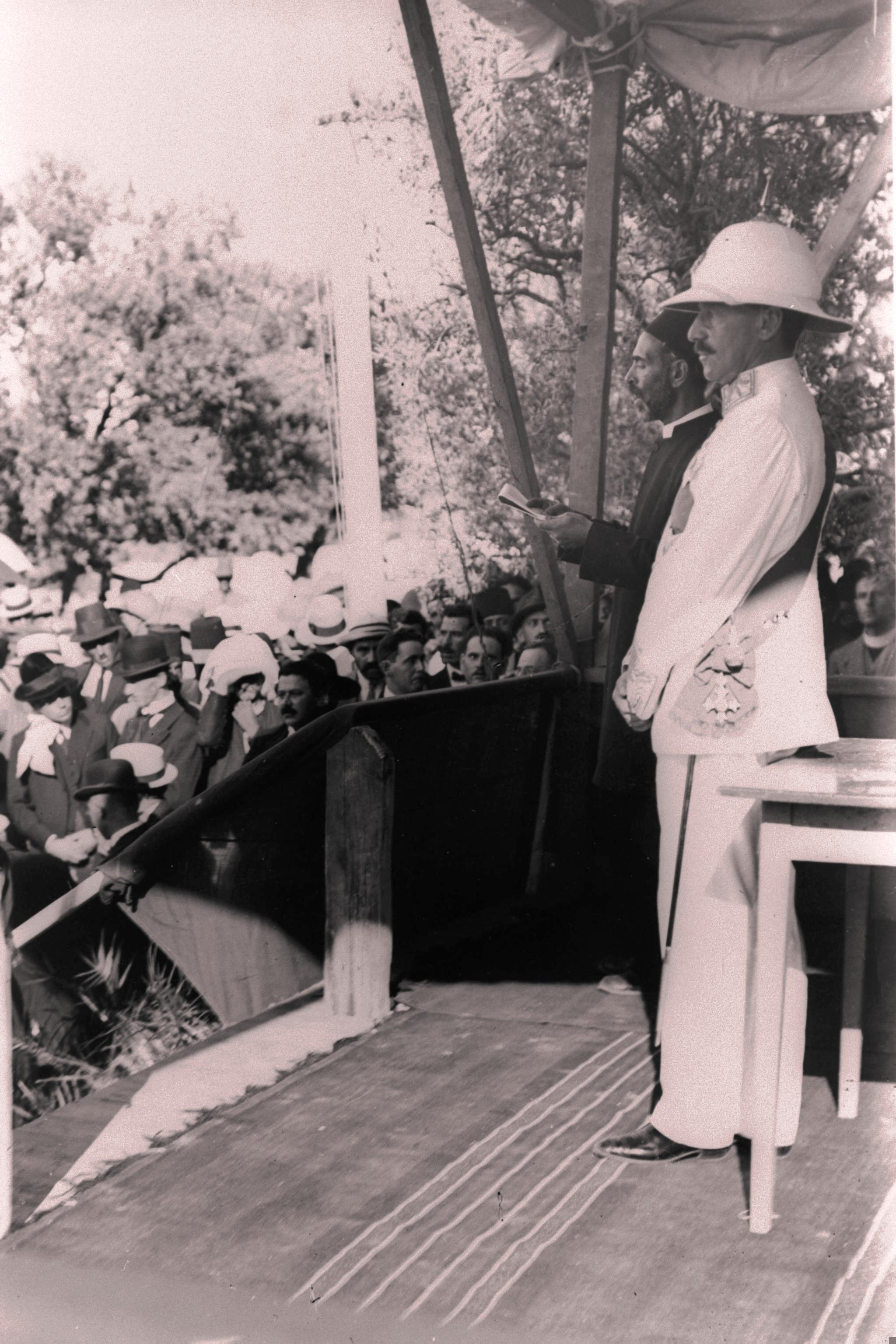 BRITISH HIGH COMMISSIONER HERBERT SAMUEL (R) LISTENING TO THE READING OF THE MONARCH'S MANIFESTO ESTABLISHING CIVILIAN RULE IN THE LAND OF ISRAEL. מימין, הנציב העליון הבריטי הרברט סמואל - HERBERT SAMUEL, במעמד הקראת מינשר המלך, על כינון שילטון אזרחי בארץ ישראל.